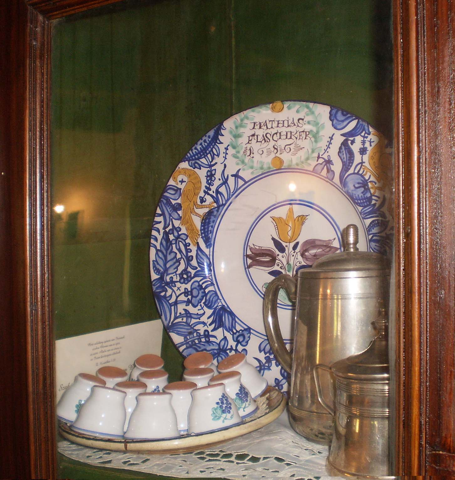 Haban dish in the baptist chapel, Neszmély, Hungary